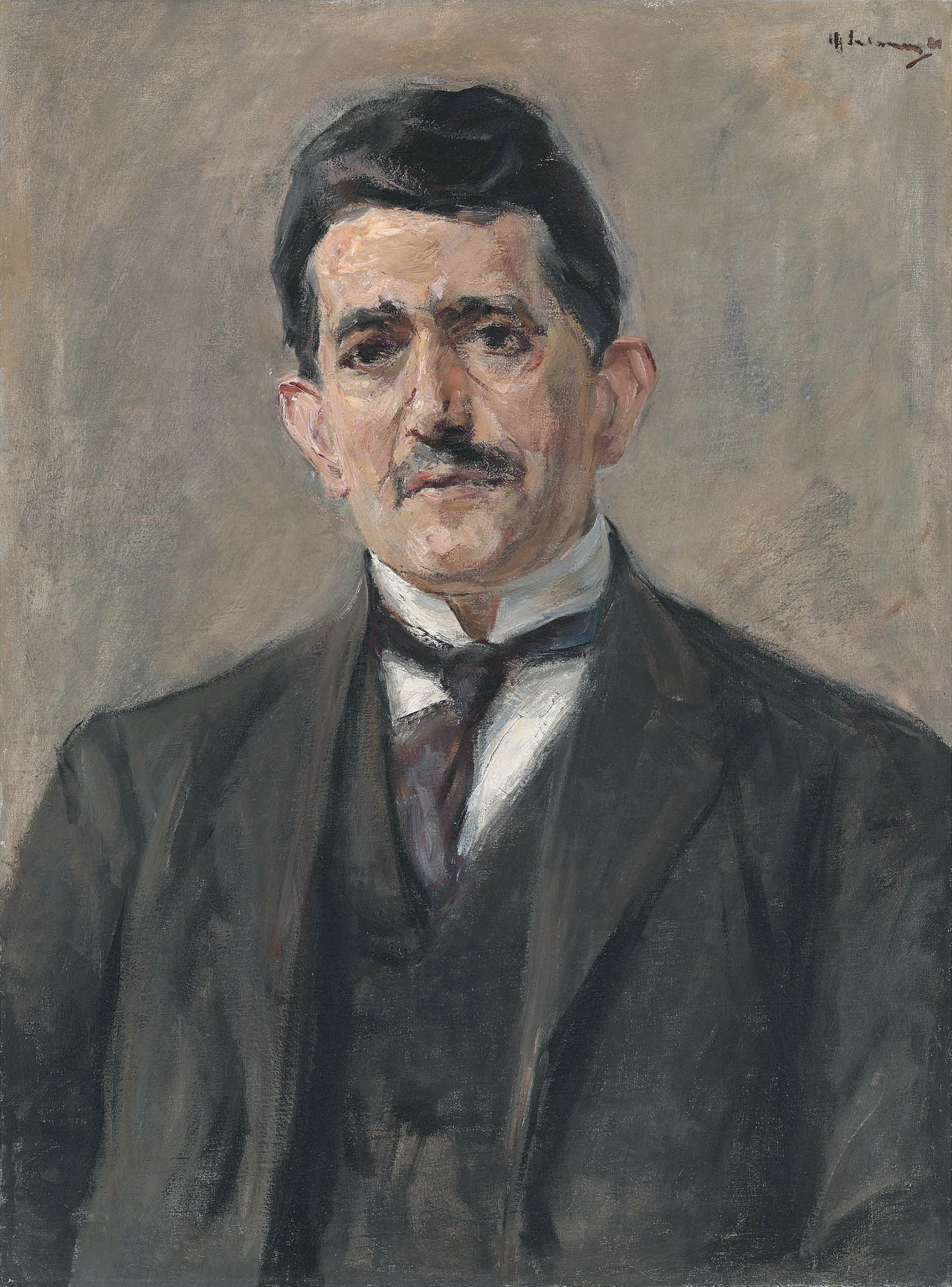 Bruno Cassirer oil on canvas 75 x 56.2 cm. signed t.r.: M Liebermann 21